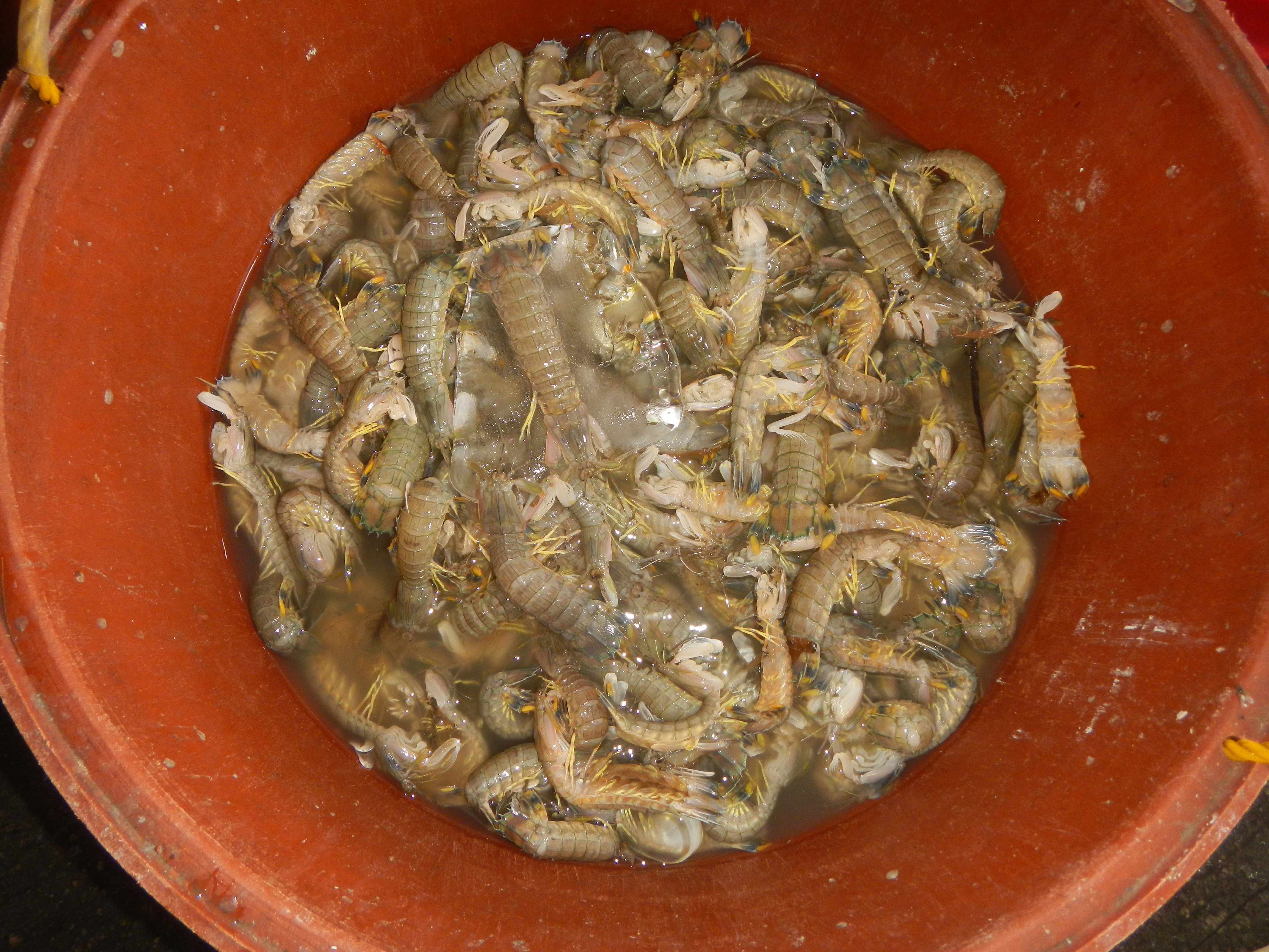 San Jose, Hagonoy from Hagonoy Town Proper Barangays Santo Niño 14°50'26"N 120°44'33"E San Sebastian 14°49'42"N 120°44'14"E San Nicolas 14°48'58"N 120°43'50"E San Agustin 14°50'59"N 120°44'44"E Hagonoy, Bulacan (Note: Judge Florentino Floro, the owner, to repeat, Donor Florentino Floro of all these photos hereby donate gratuitously, freely and unconditionally all these photos to and for Wikimedia Commons, exclusively, for public use of the public domain, and again without any condition whatsoever).